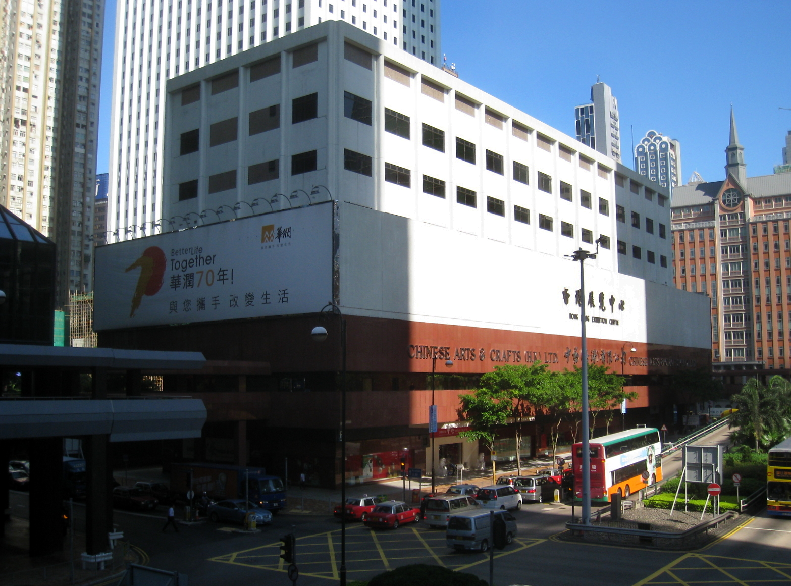 Buildings depicted include the Hong Kong Exhibition Centre (in the center of the image), and the Wanchai Meetinghouse of The Church of Jesus Christ of Latter-day Saints (far right in image), Hong Kong.